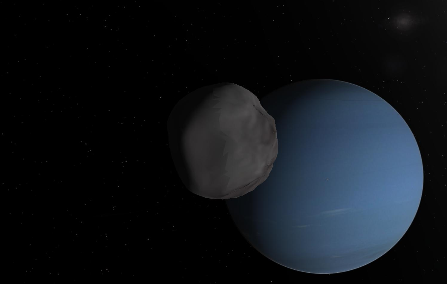 A simulated view of Proteus orbiting Neptune. Creating using Celestia. attribution: --JiFish(Talk/Contrib)